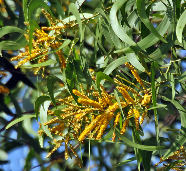 Earpod Wattle Acacia auriculiformis in Kolkata, West Bengal, India.